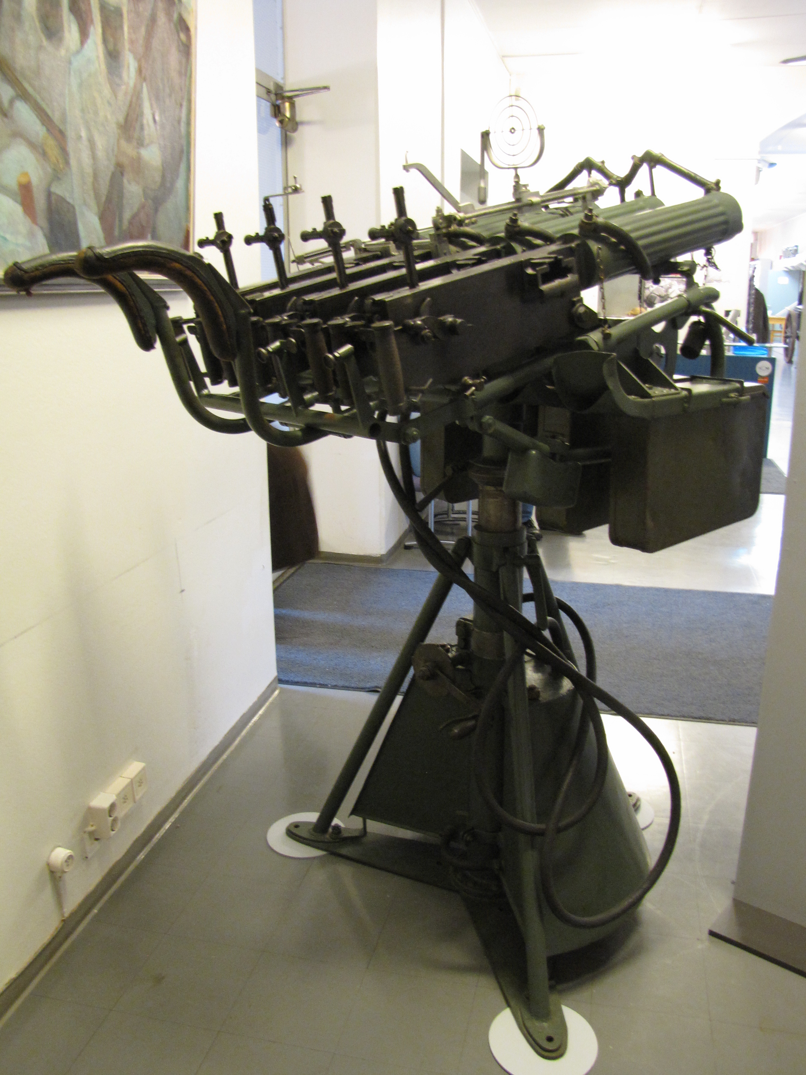 Soviet Union quad Maxim anti-aircraft machine gun. Captured by Finns and known as "organ machine gun". Photographed in the "Winter War - 70 years" exhibition in the Military Museum of Finland.